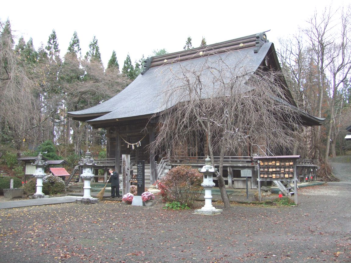 tendai temple